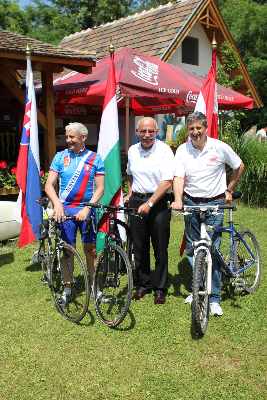 There are three ministers of foreign affairs, from the left Mikuláš Dzurinda (slovakia), János Martonyi (hungary), Michael Spindelegger (austria)